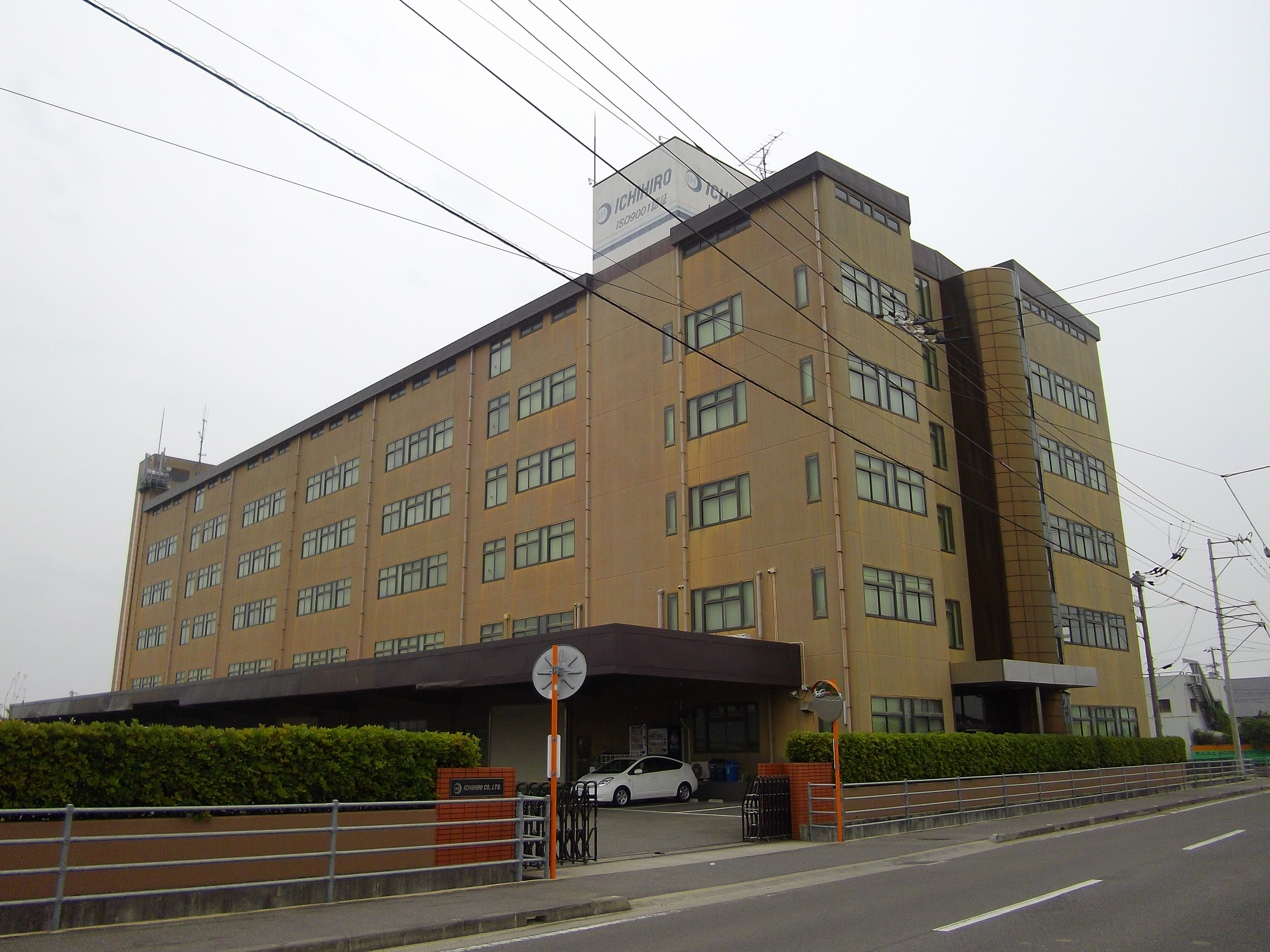 ICHIHIRO Co., Ltd. (towel maker) Distribution Center in Imabari city, Ehime prefecture.